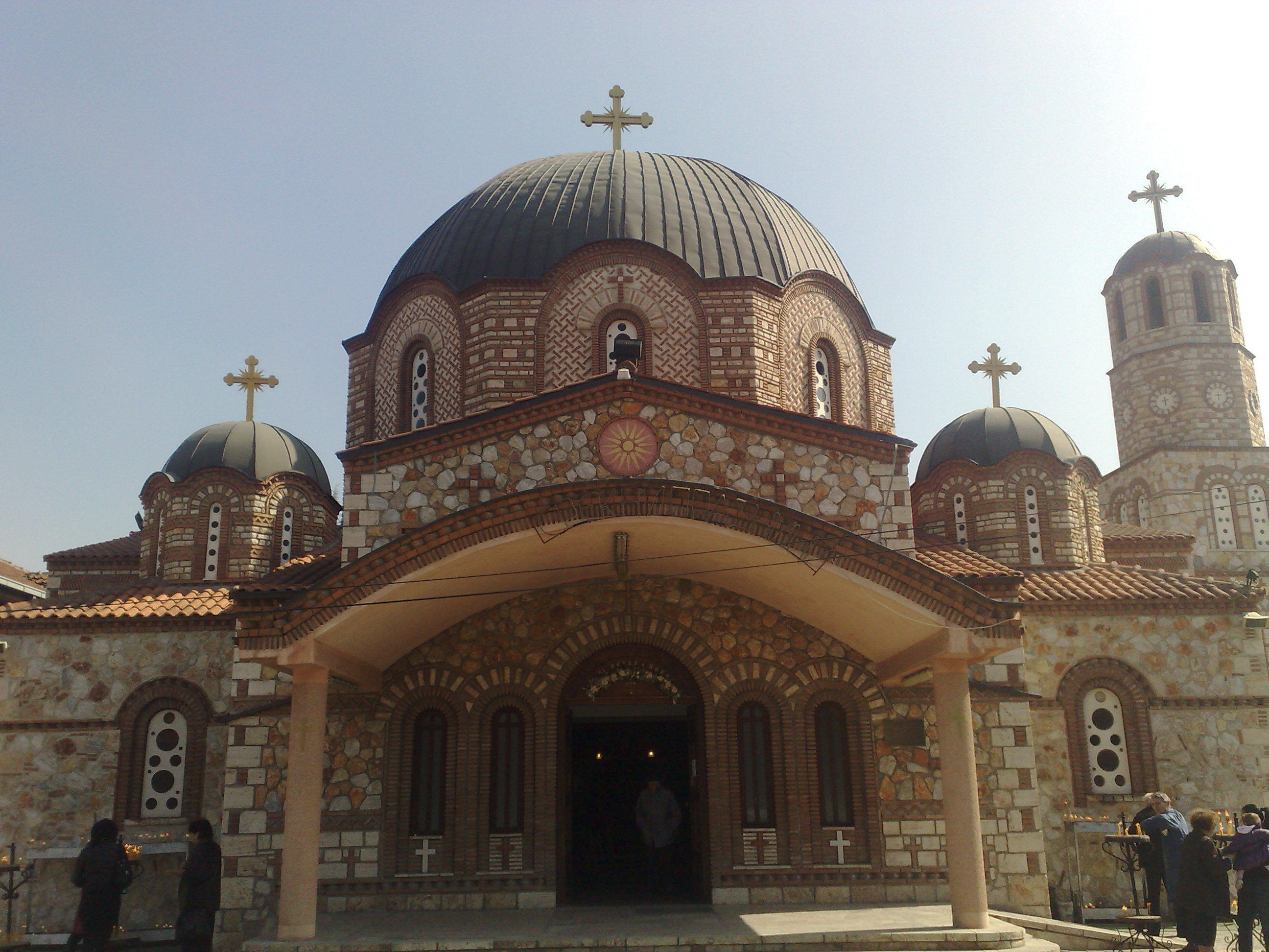 The church of the Saint apostles Peter and Paul in suburb Gjorce Petrov, Skopje, Macedonia